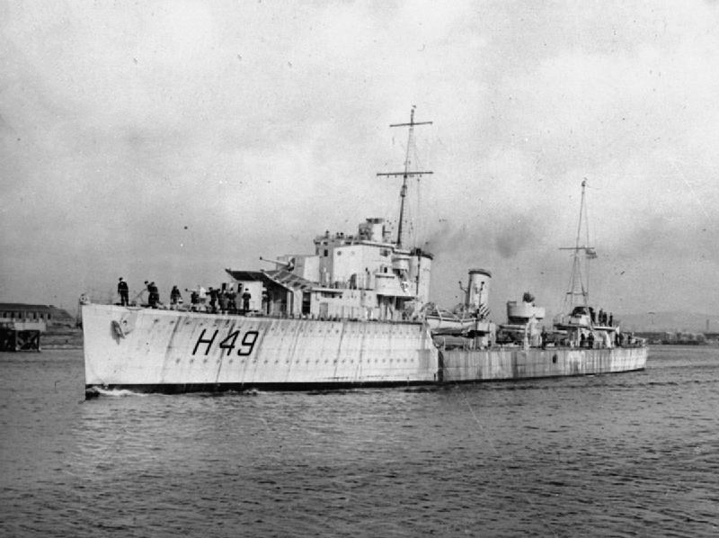 Photograph of British destroyer HMS Inconstant.